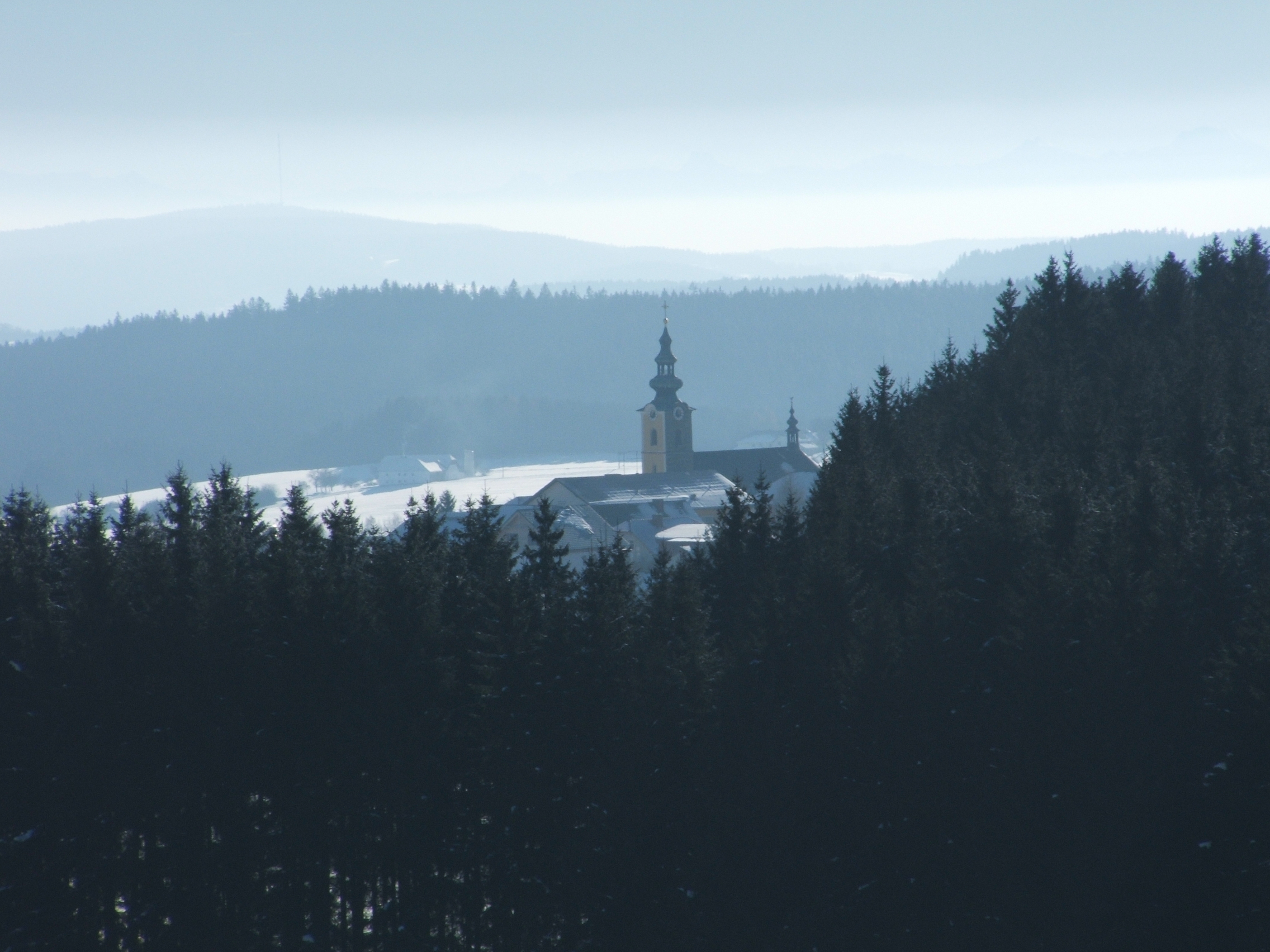 Traberg, Upper Austria, Austria, in winter